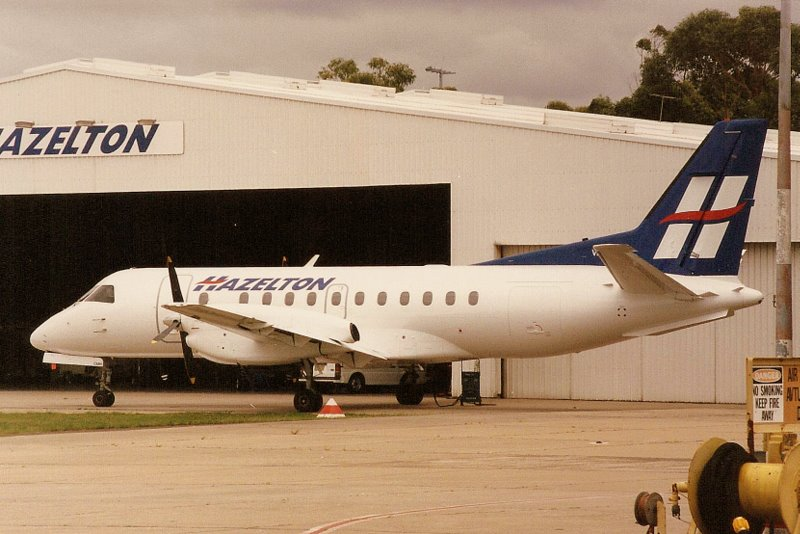 A Hazelton Airlines Saab 340B in the airline's late-1990s colour scheme. Image scanned from a 6"x4" photograph of VH-CMH taken at Sydney Airport by YSSYguy circa January 1999 and uploaded for use in the Hazelton Airlines article. Image edited using Picasa software. YSSYguy (talk) 11:35, 26 October 2011 (UTC)